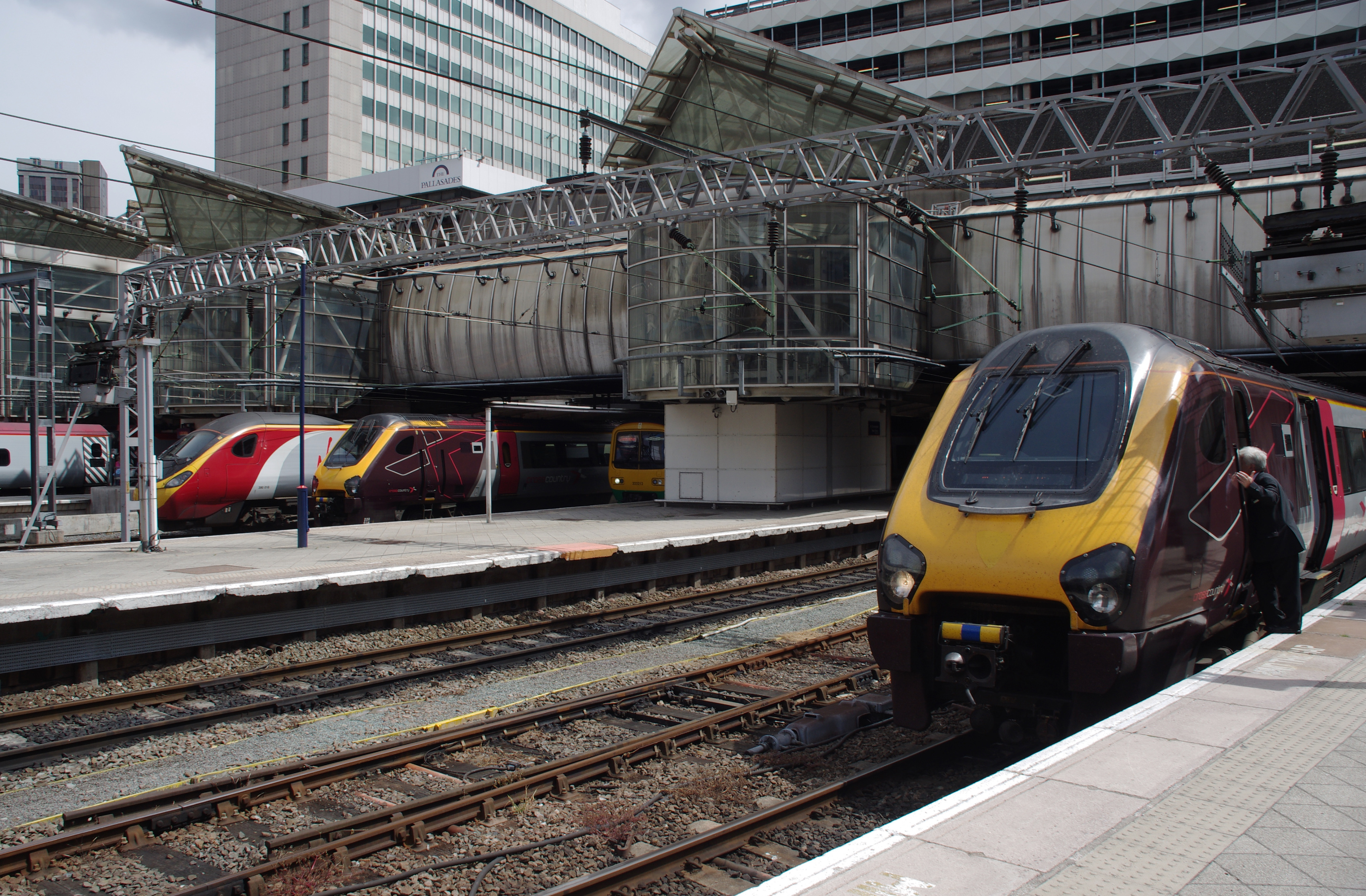 Virgin Trains Pendolino 390016, CrossCountry Voyagers 220014 (background) and 221133 (foreground) and London Midland 323212 at Birmingham New Street.